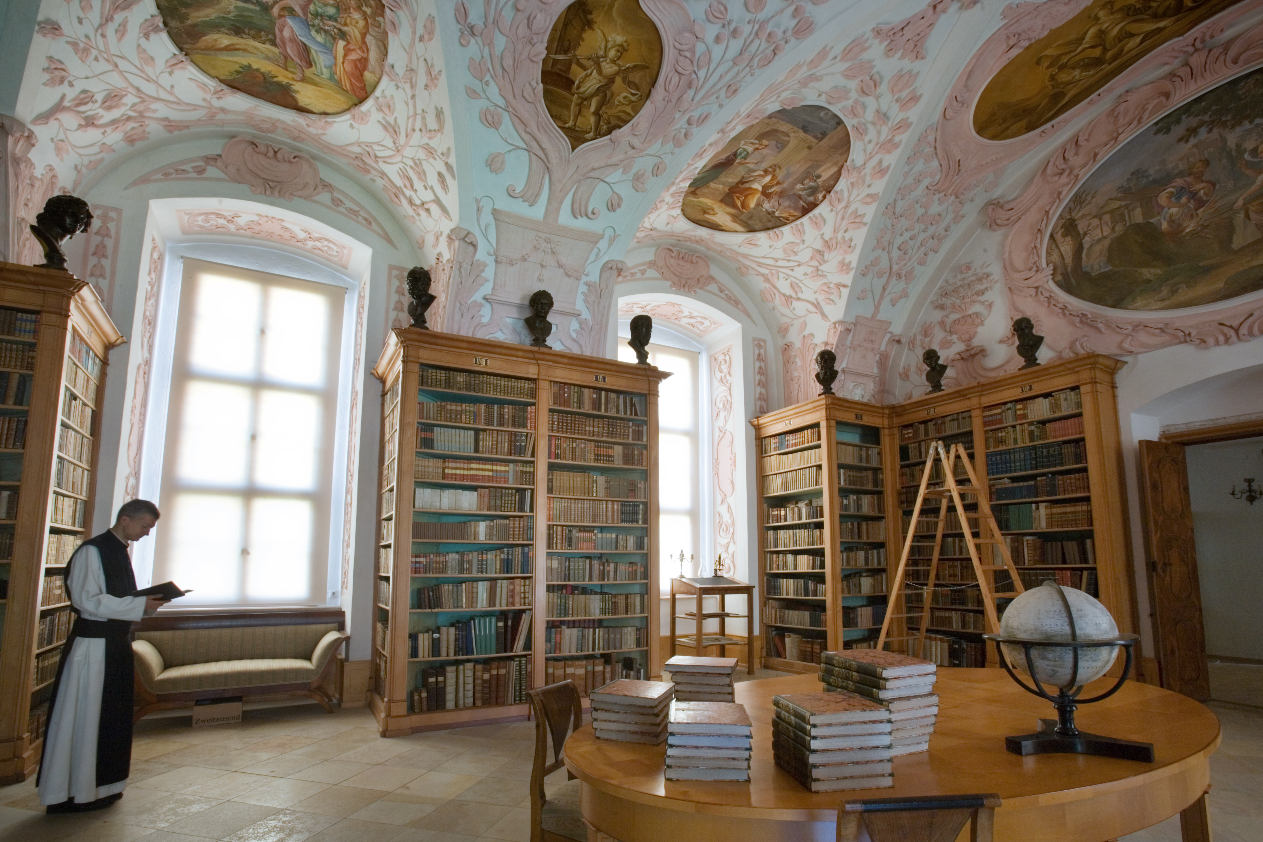 Heiligenkreuz Abbey library, Austria